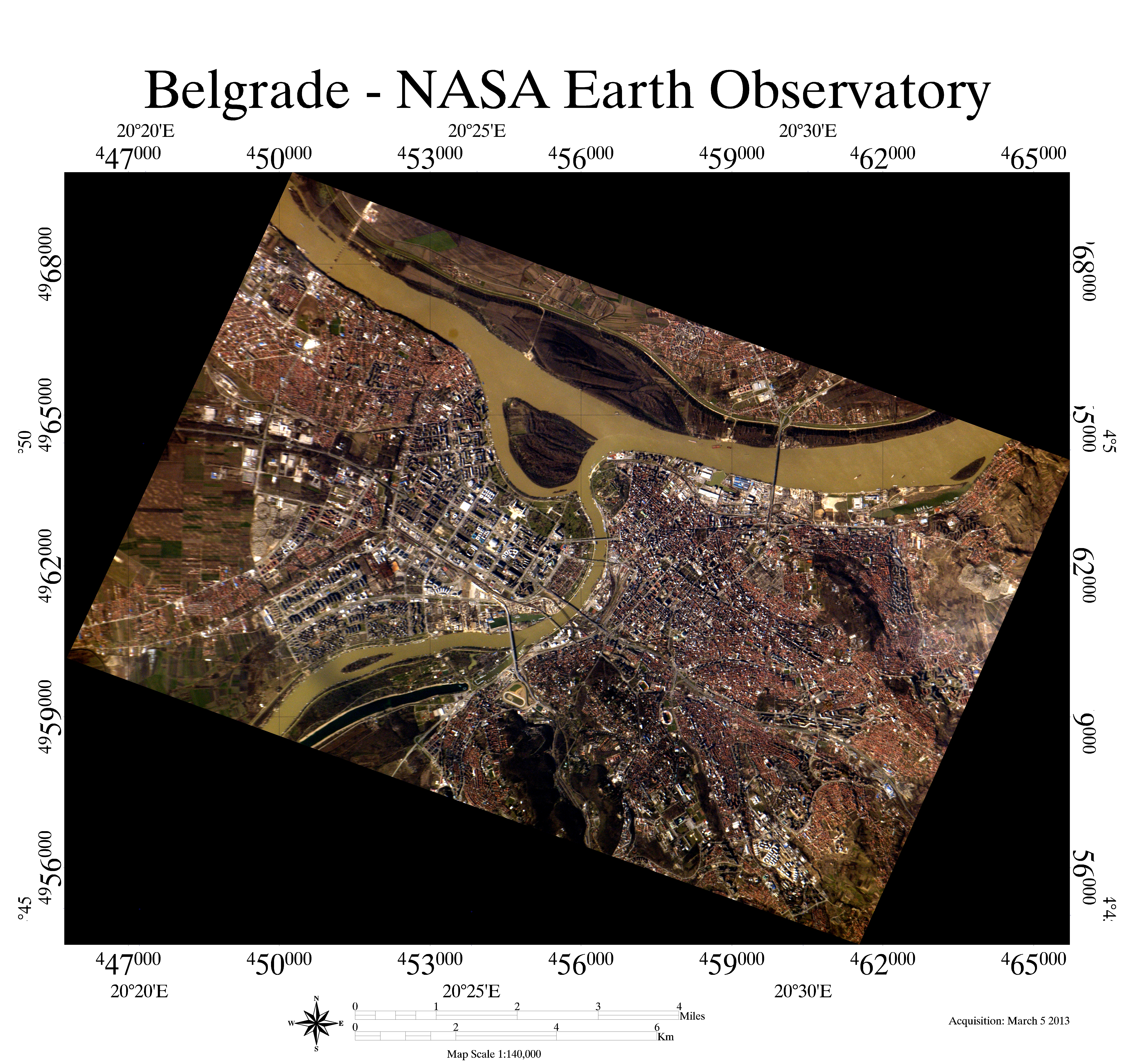 {Located at the confluence of the Danube and Sava Rivers, Belgrade is the capital city of the Republic of Serbia. The Belgrade metropolitan area has a population of 1.65 million (2011 census), which ranks it as one of the largest cities in southeastern Europe. Human occupation of the Belgrade area can be traced back over 6,000 years, and a city that became Belgrade existed by at least 279 BC. Throughout recorded history, the city has had many rulers and has suffered through numerous battles, frequently being completely destroyed and rebuilt in the process. In recent history, it was the capital of the socialist state of Yugoslavia for most of the 20th century. The core of old Belgrade—known as Kalemegdan—is located along the right banks of both the Danube and the Sava Rivers (image center). To the west across the Sava, Novi Beograd (New Belgrade) was constructed following World War II. The difference in urban patterns between the older parts of Belgrade and Novi Beograd is striking in this astronaut photograph from the International Space Station. Novi Beograd has an open grid structure formed by large developments and buildings such as the Palace of Serbia—a large federal building constructed during the Yugoslav period, now used to house elements of the Serbian government. By contrast, the older urban fabric of Belgrade is characterized by a denser street grid and numerous smaller structures. Other suburban and residential development (characterized by red rooftops) extends to the south, east, and across the Danube to the north. The location of Belgrade along trade and travel routes between the East and West contributed to both its historical success as a center of trade and its fate as a battleground. Today, the city is the financial center of Serbia, while Novi Beograd supports one of the largest business districts in southeastern Europe.